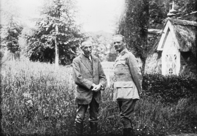 An informal photograph of the Australian Prime Minister the Right Honourable William Morris (Billy) Hughes and Lieutenant General Sir William Birdwood during a visit by Hughes to France in early 1916. The original film for this scene was 'shot' by the British Official Cinematographer Bede Tongs.